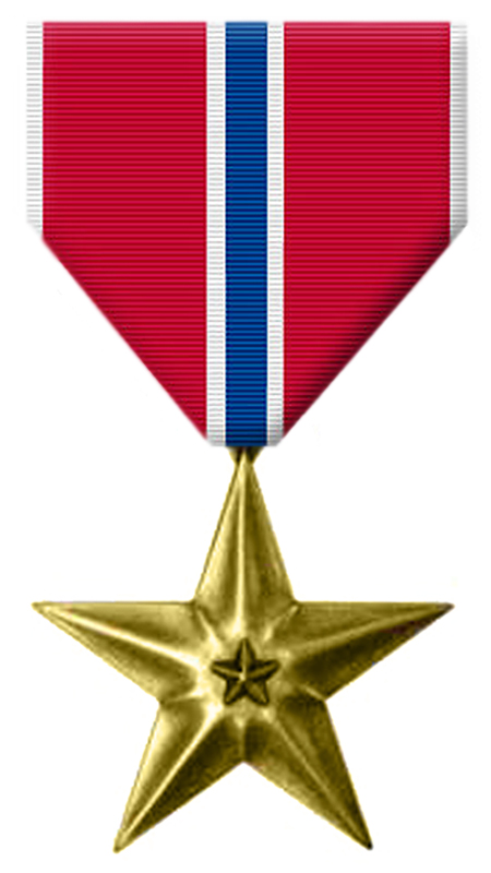 The Bronze Star Medal, a decoration of the United States Armed Forces.